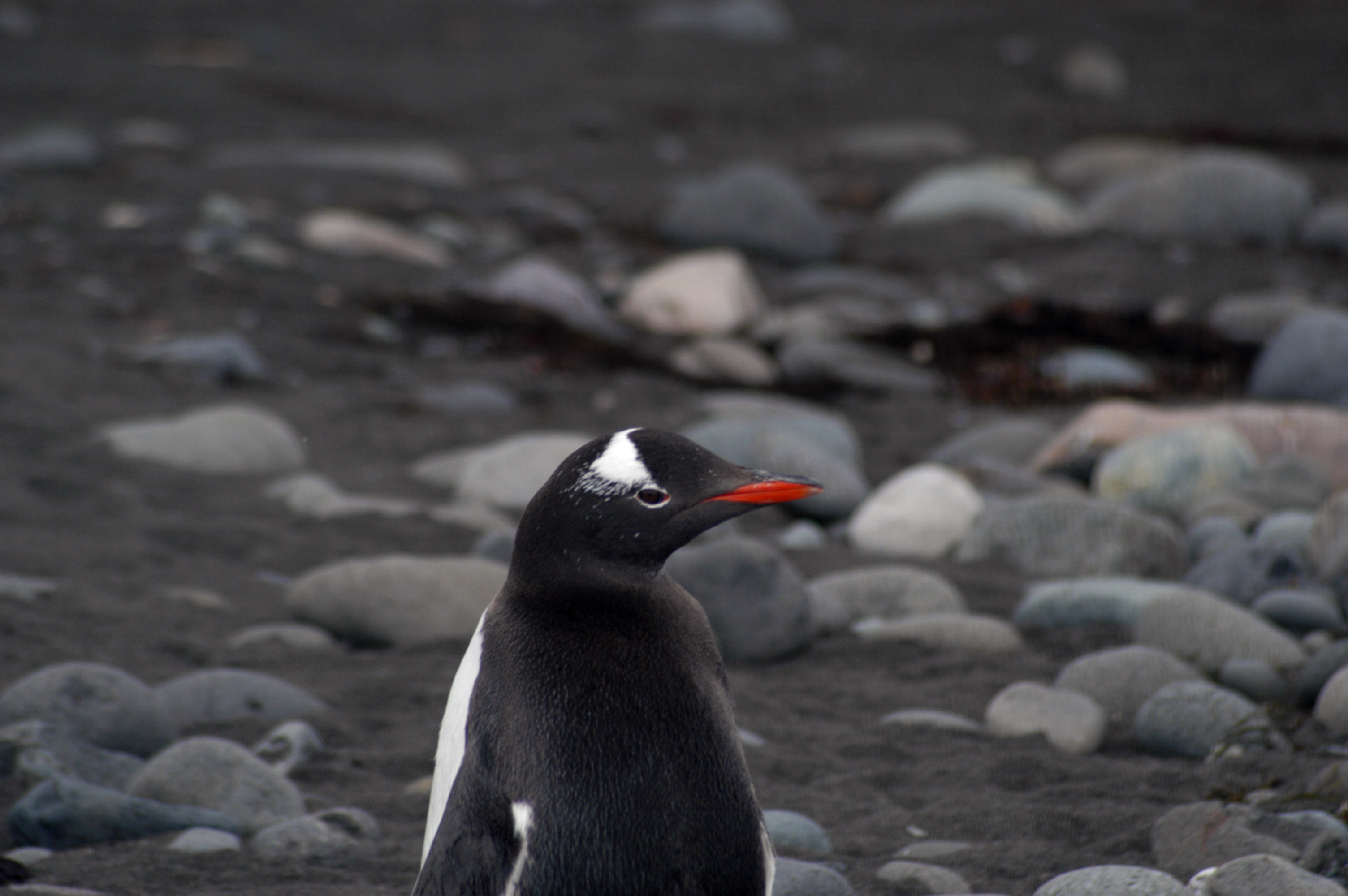 Gentoo penguin at Arctowski Antarctic Polish base.